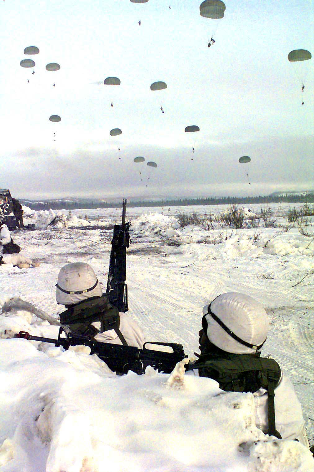 Two soldiers from the 1st Battalion, 501st Infantry (Airborne) take up defensive positions as the rest of their unit lands at the Donnely drop zone in Alaska on Feb. 18, 1998, during Exercise Northern Edge 98. More than 90,000 soldiers, sailors, Marines, airmen Coast Guardsmen and National Guardsmen are participating the exercise. Northern Edge 98 is designed to practice joint operational techniques and procedures, increasing interoperability between the services.